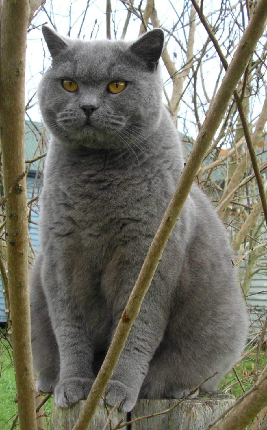 British Blue Short-hair (male) have a well-rounded thick body type with a silver-blue coat and golden well-defined eyes that distinguish the true characteristics of a British Blue Short-hair. They are also very intelligent, very playful and very affectionate. This male is 3-4 years of age.